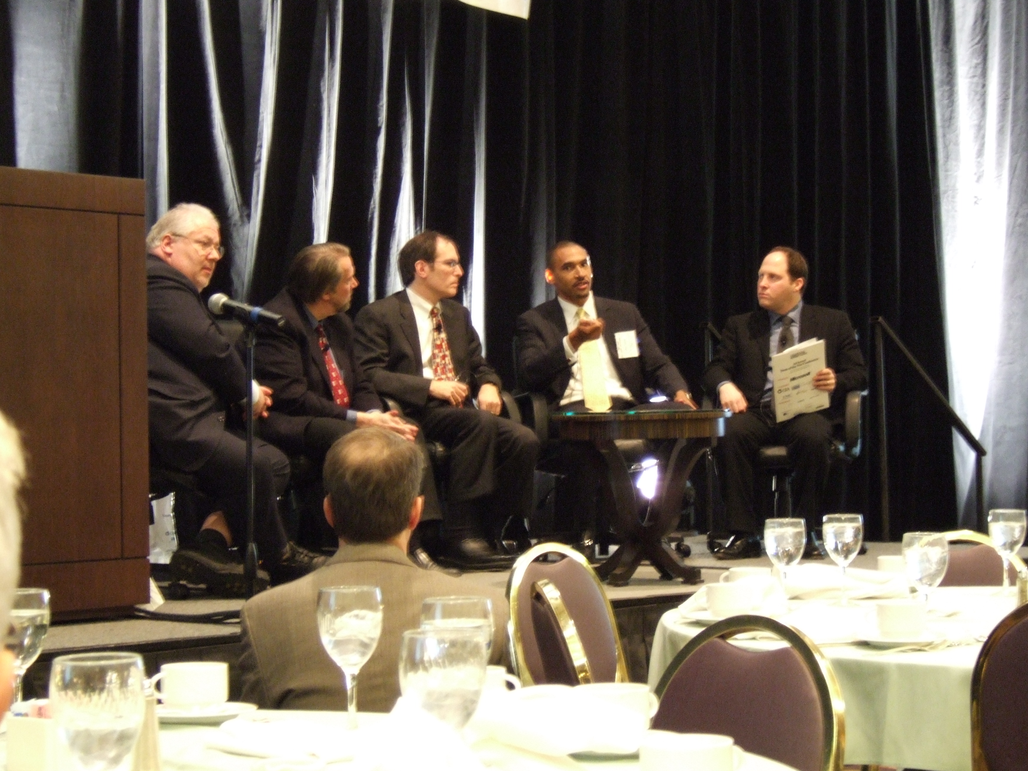 Panel discussion at the 3rd annual State of the Net conference, held in Washington, D.C. From Left: Lord Toby Harris (UK Parliament), Chrsitopher Painter (US DoJ), Scott Charney, (MSFT), Chris Young (RSA Security) and Ari Schwartz (CDT)